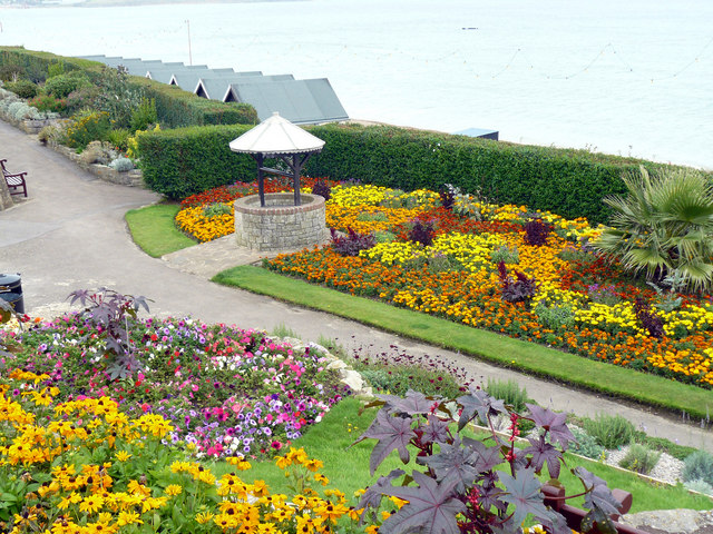 Weymouth - Greenhill Gardens Weymouth's award winning gardens.